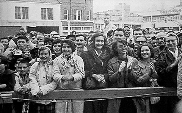 Crowd waiting to see President John F. Kennedy emerge from Hotel Texas in Fort Worth on November 22, 1963. The young boy raised above the crowd is future director-actor Bill Paxton (1955–2017).